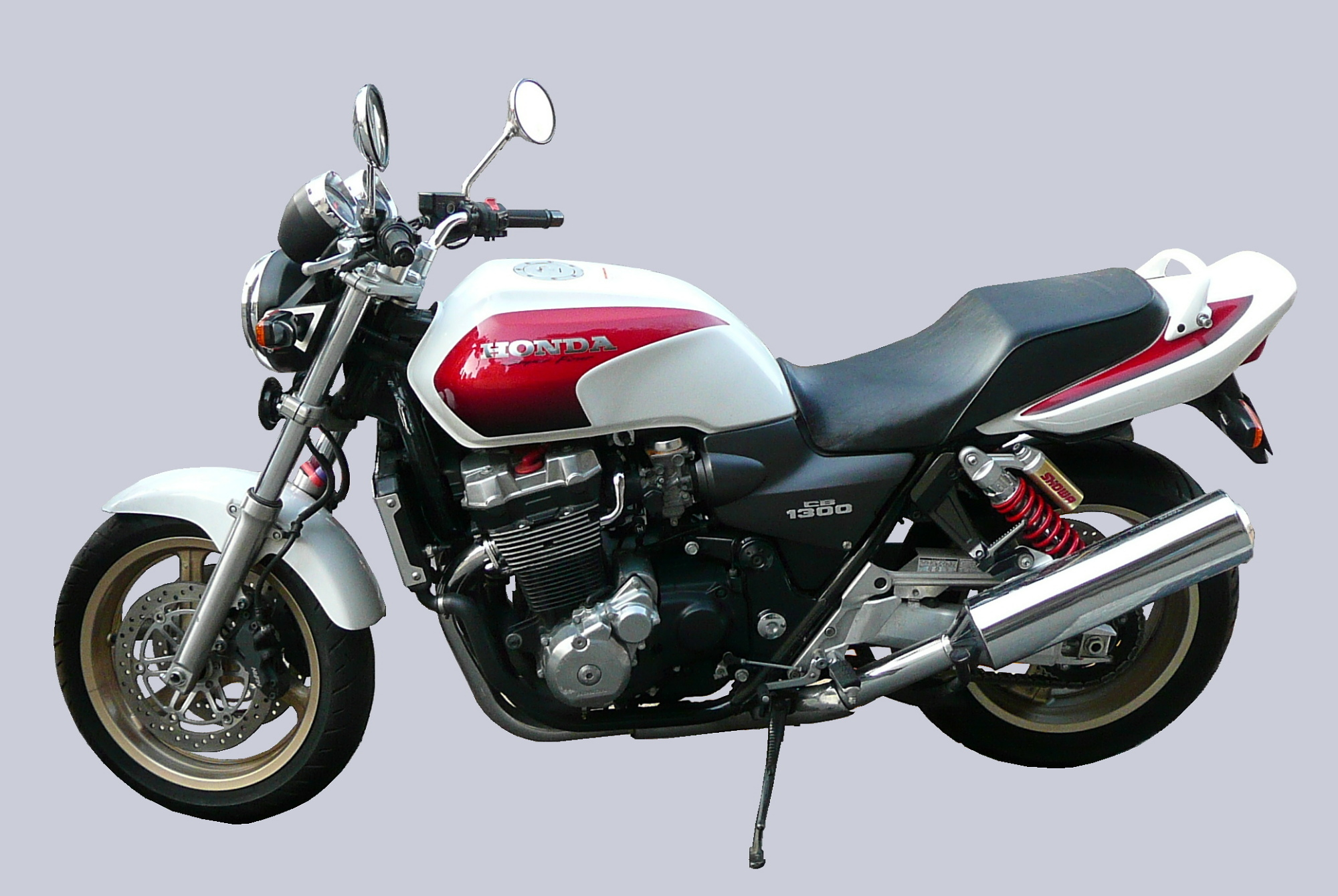 HONDA CB1300